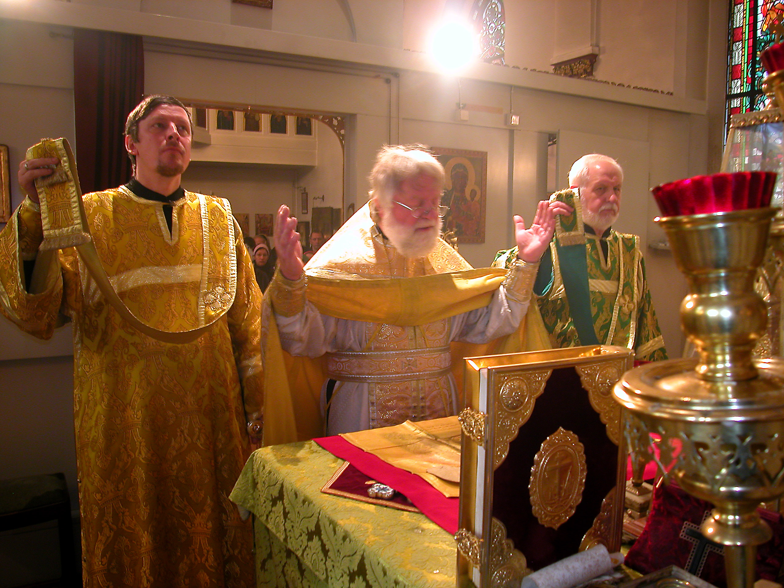 Archpriest Andrew (Mammitzsch), Holy Protection Church, Düsseldorf